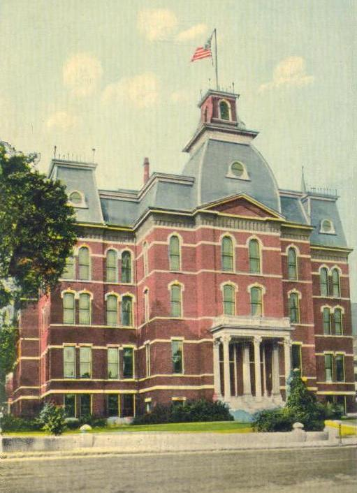 City Hall, Peabody, MA; from a 1912 postcard.